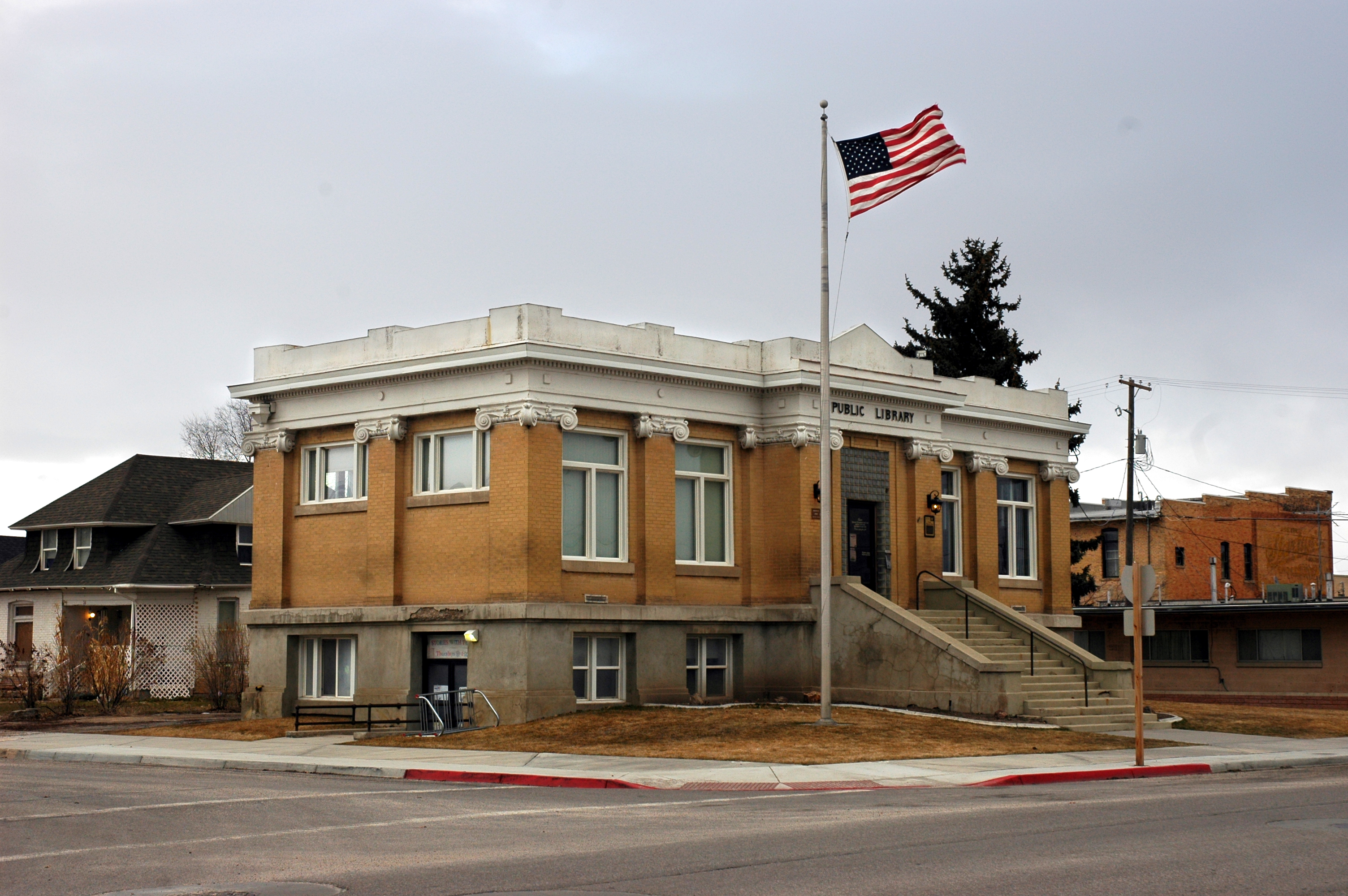 The Garland Carnegie Library, a historic building in Garland, Utah, United States.